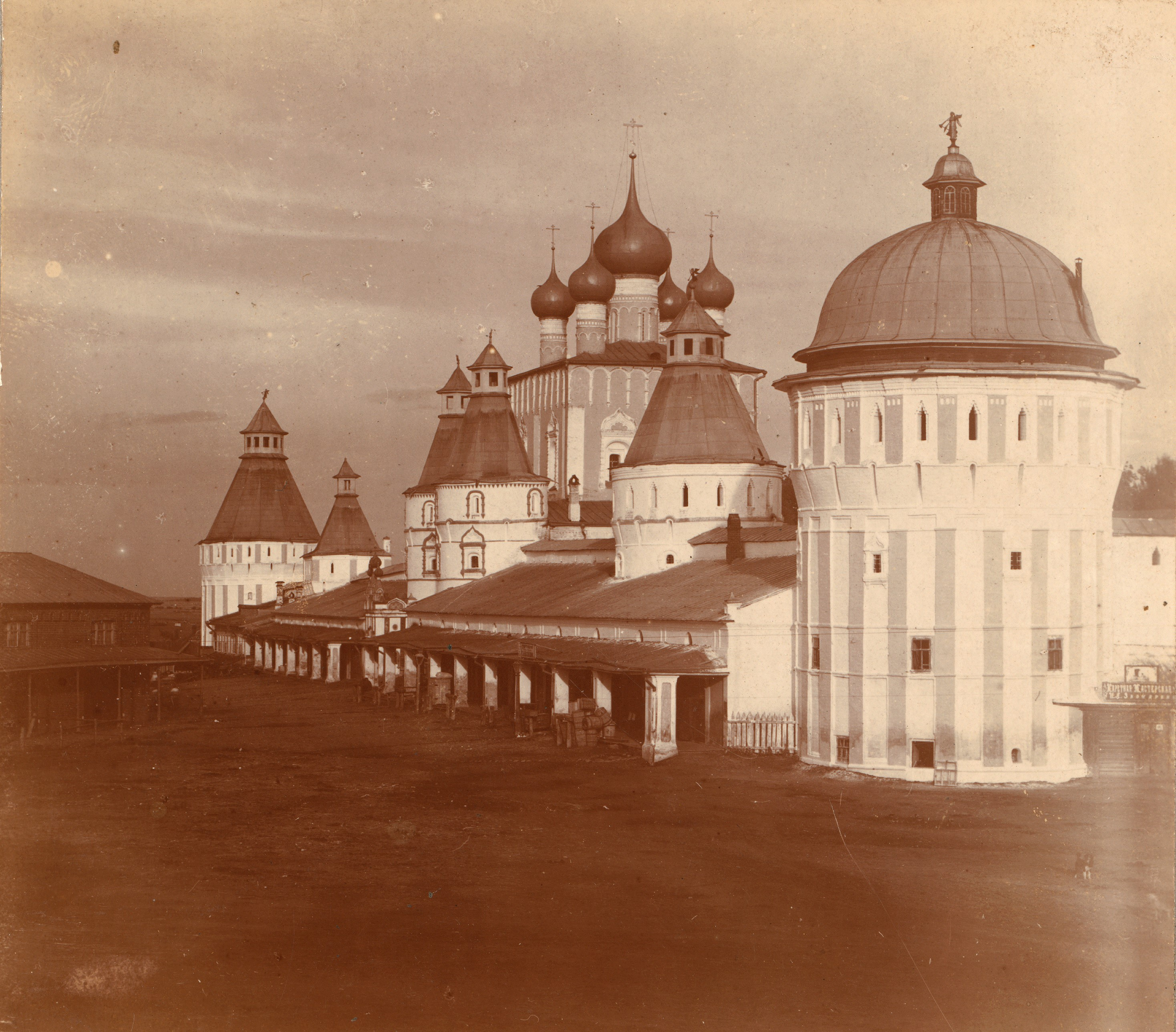 The Orthodox Monastery of Sts. Boris and Gleb